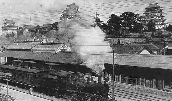 Fukuyama Station before 1945